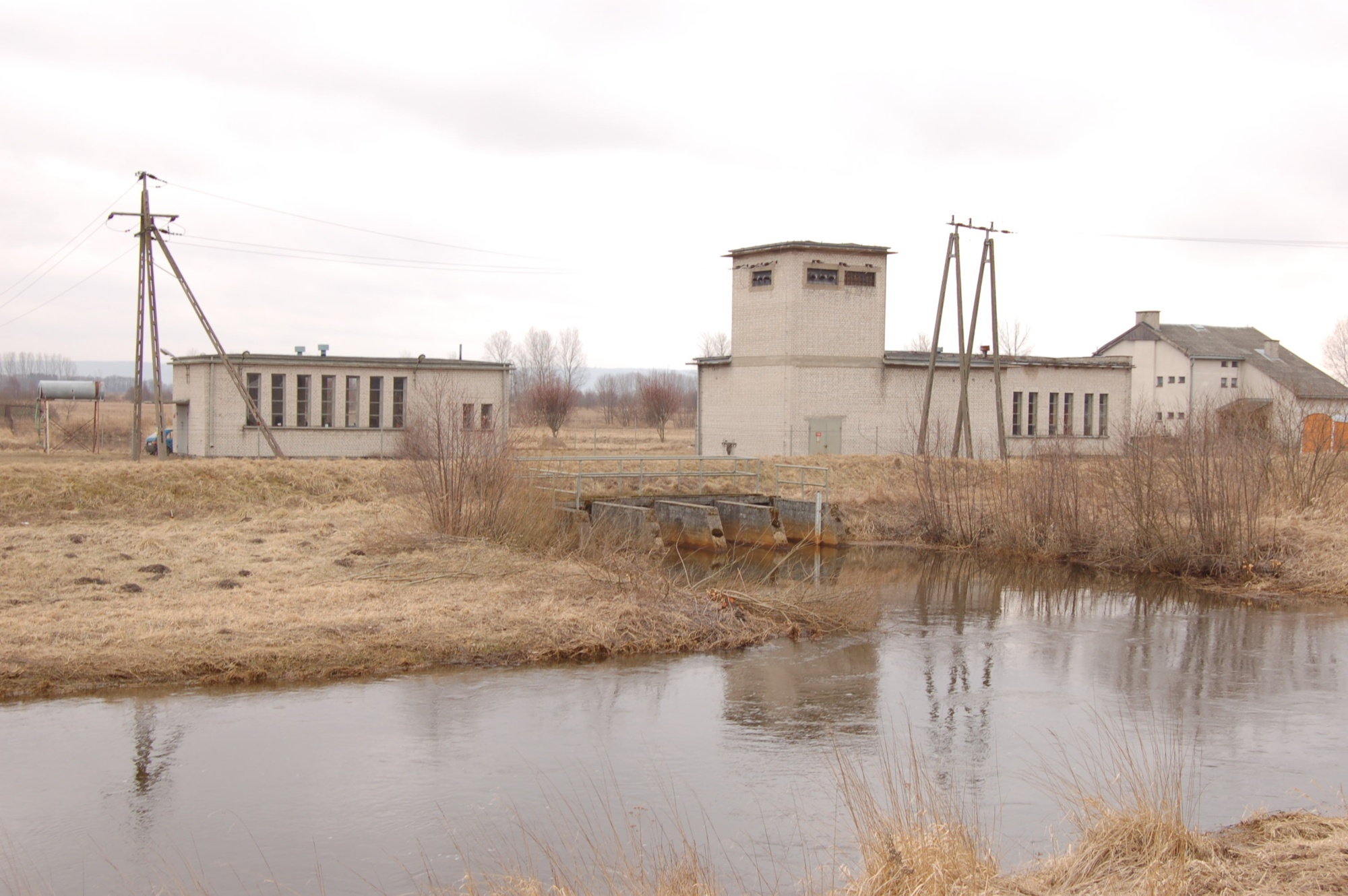 Picture taken in Reda, Poland, 2006